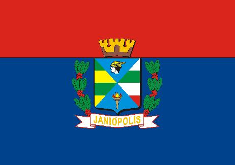 Bandeira do Município de Janiópolis